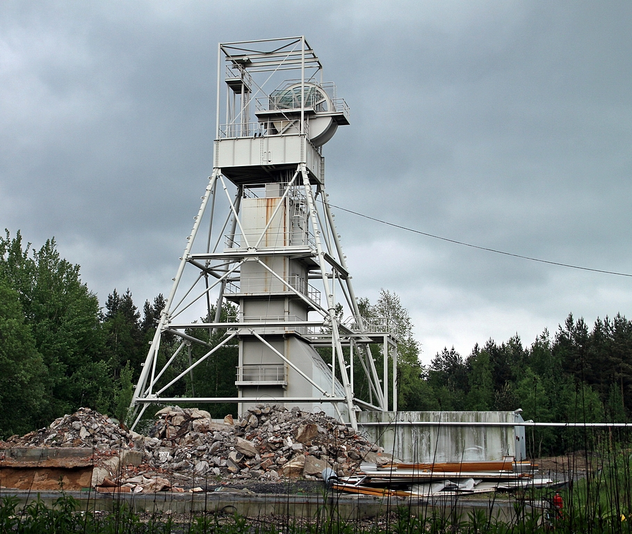 Königstein: shaft 398 of the Wismut uranium mine.